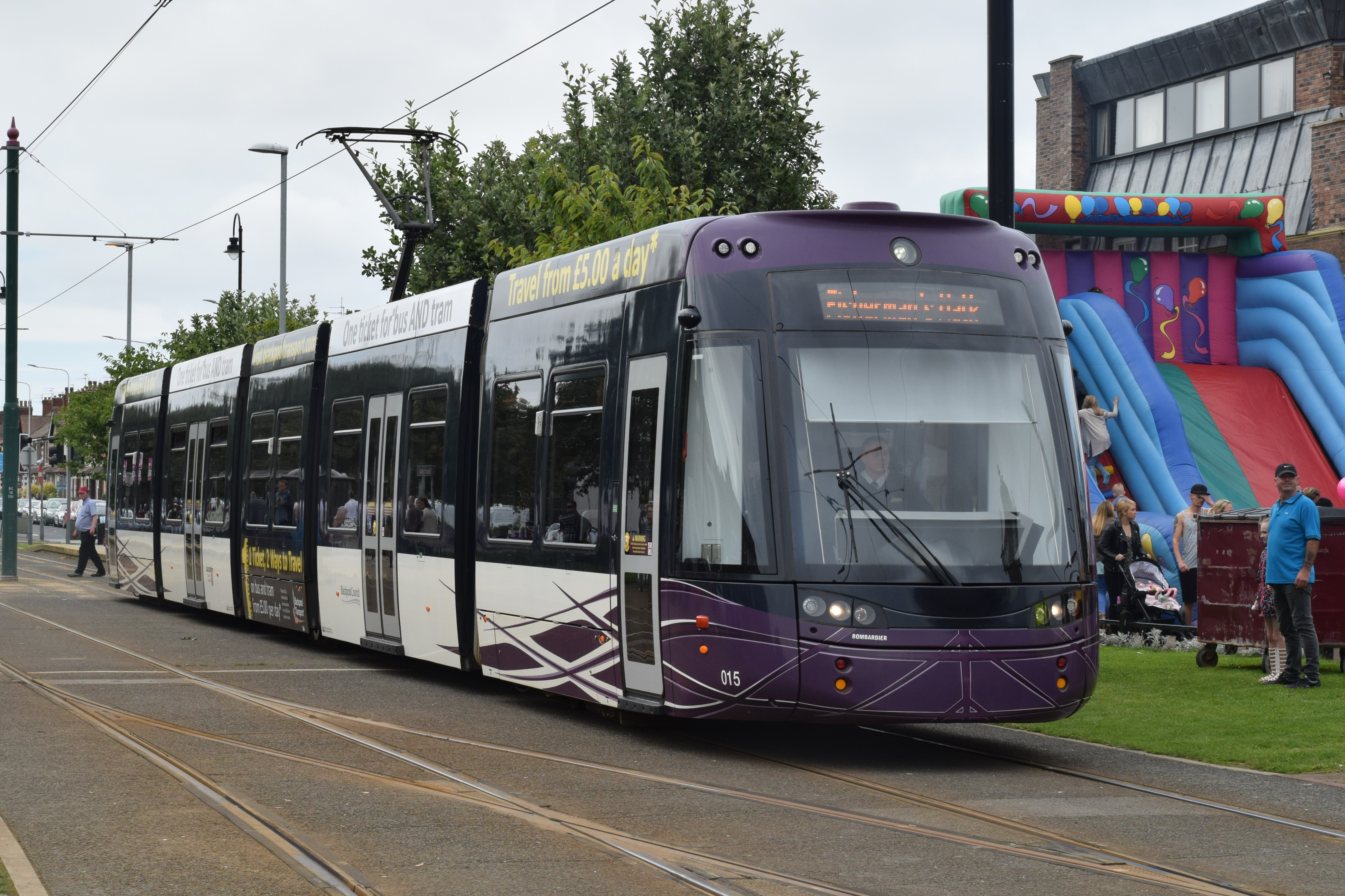 Fleetwood, Fishermans Walk. Bombardier Flexity 2~2012. Blackpool Transport, Car No.015.